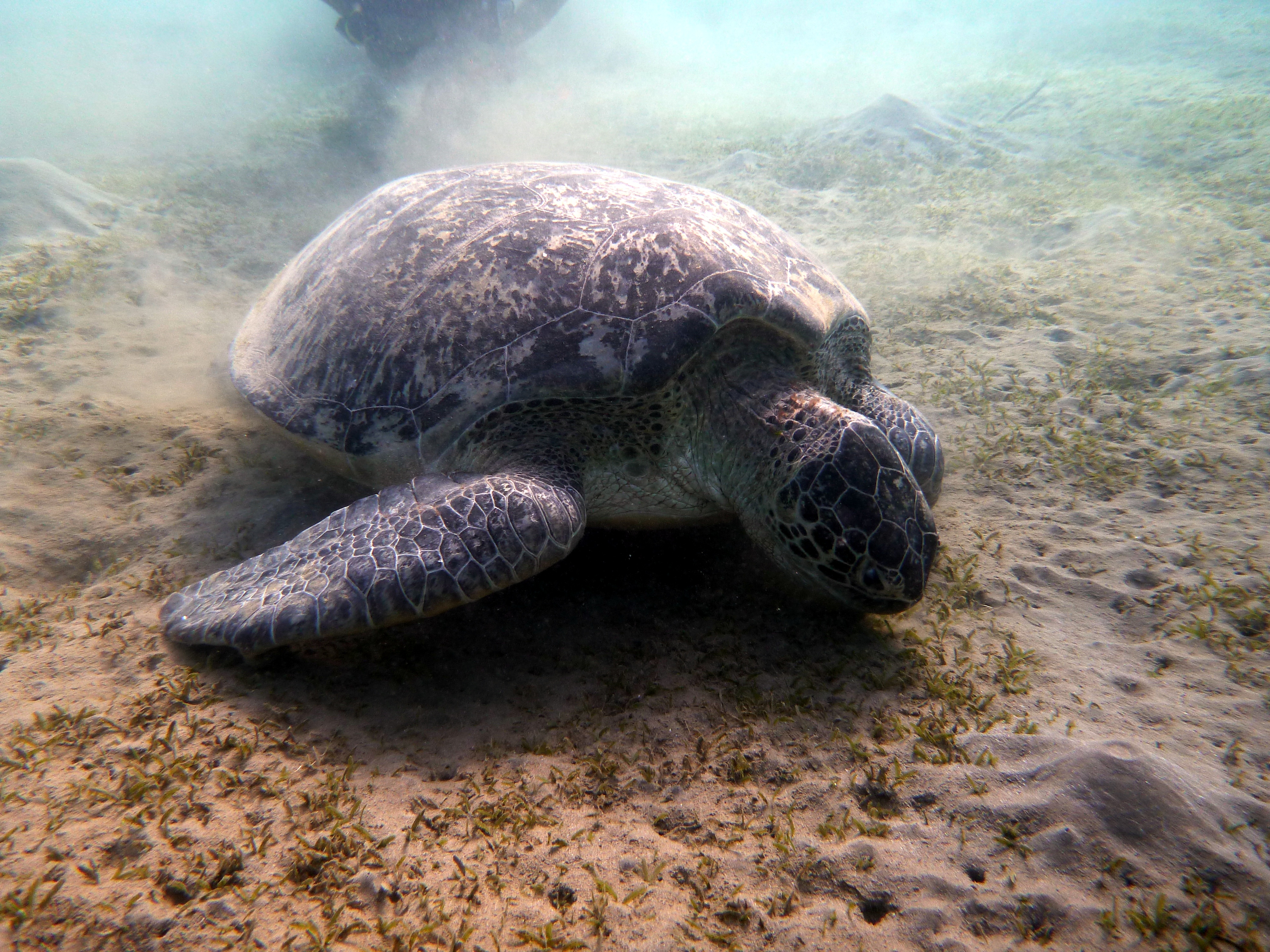 Diving in the bight of Marsa Murena, Egypt, Red Sea (Eretmochelys imbricata)